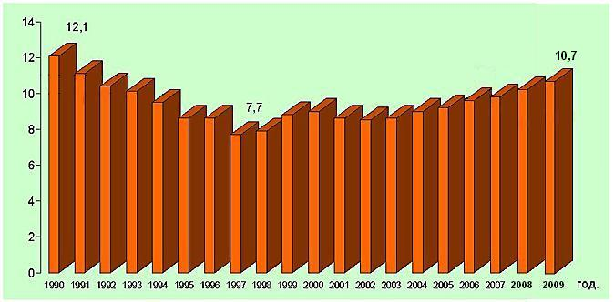 Bulgaria's birth rate (1990-2009).